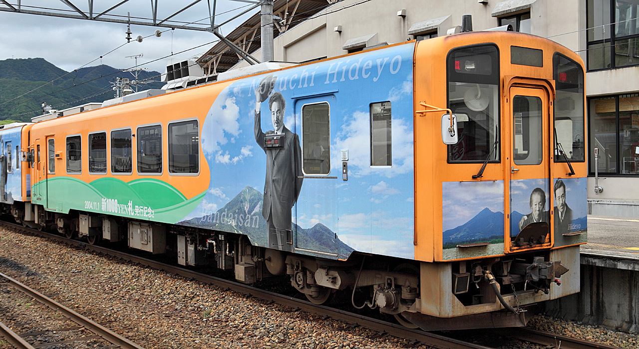 Aizu Railway Type AT-550 DMU (AT-552)